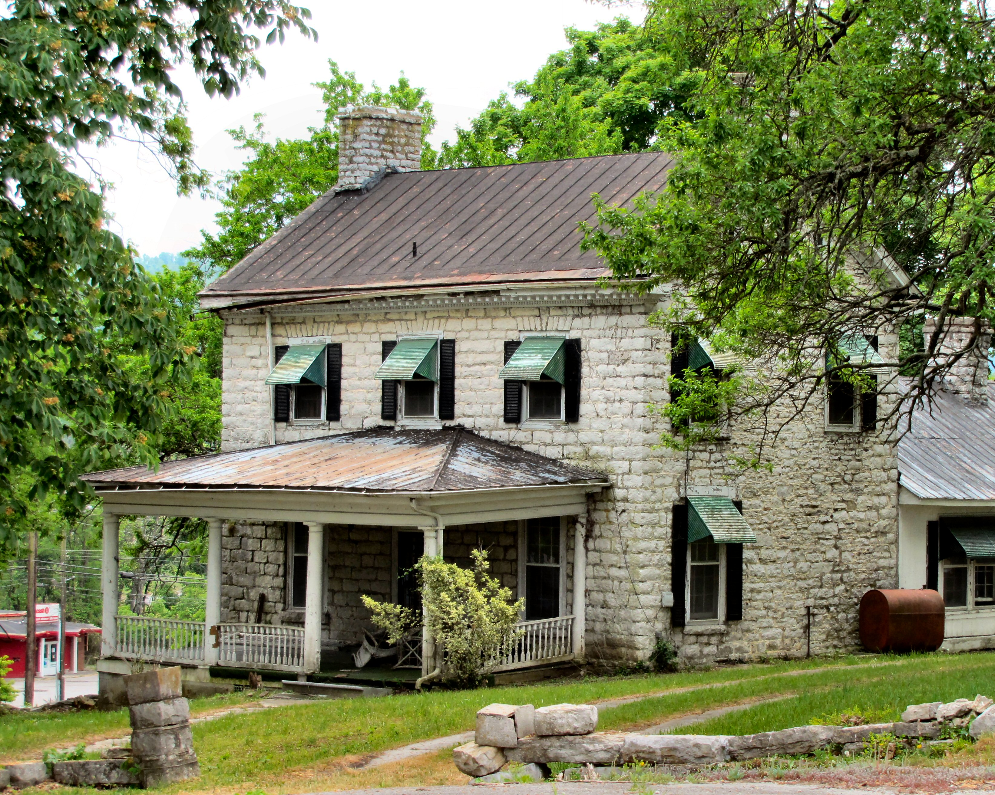 The Graham-Kivett House, also known as "Greystone," in Tazewell, Tennessee, United States. Built circa 1810, this house is now listed on the National Register of Historic Places.